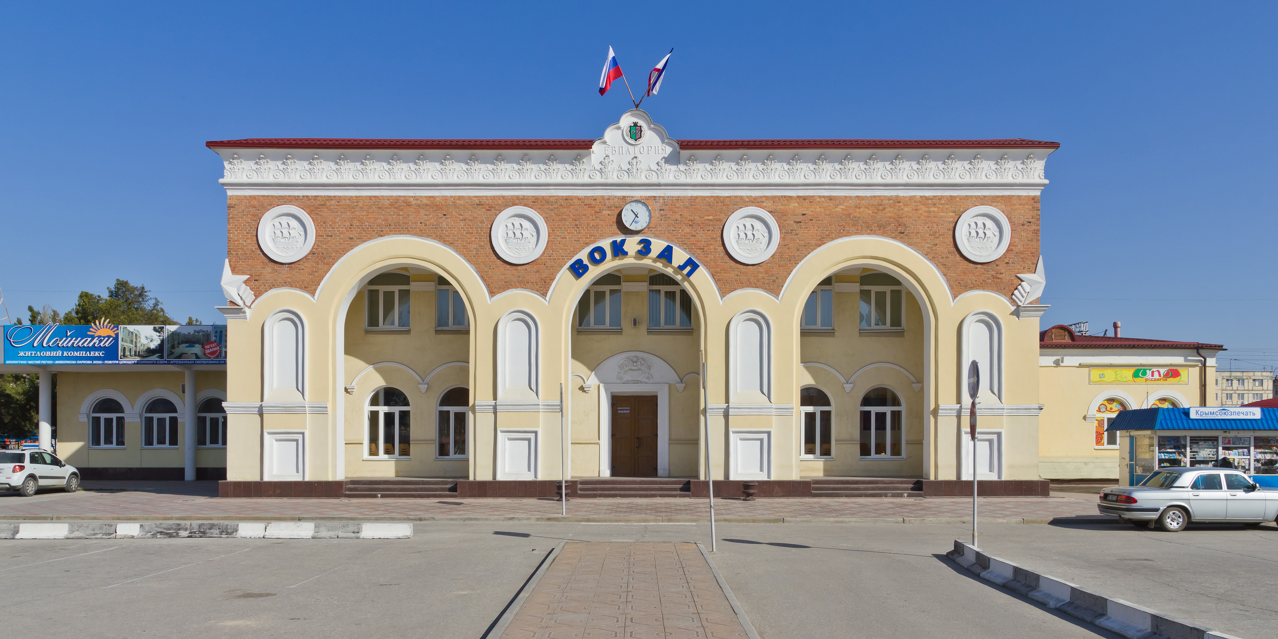 Main railway station Yevpatoriya-Kurort in Eupatoria, Crimean Peninsula.